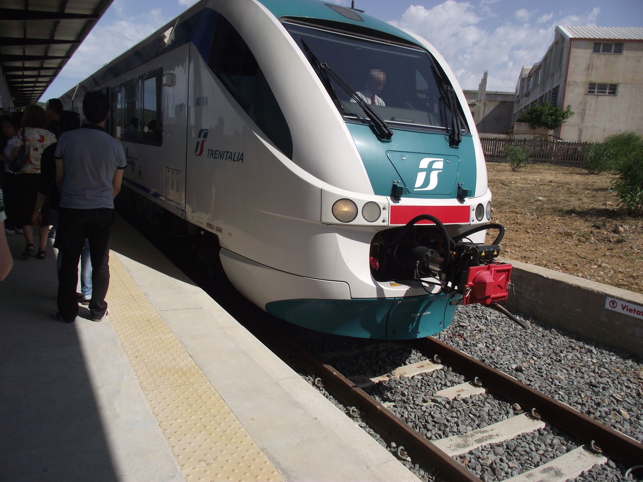 Diesel powered train Minuetto (ALn 501-502) MD 104 of Trenitalia inside the Carbonia Serbariu station, in Carbonia, Sardinia, Italy. This is the first train that reached the station in its opening day.